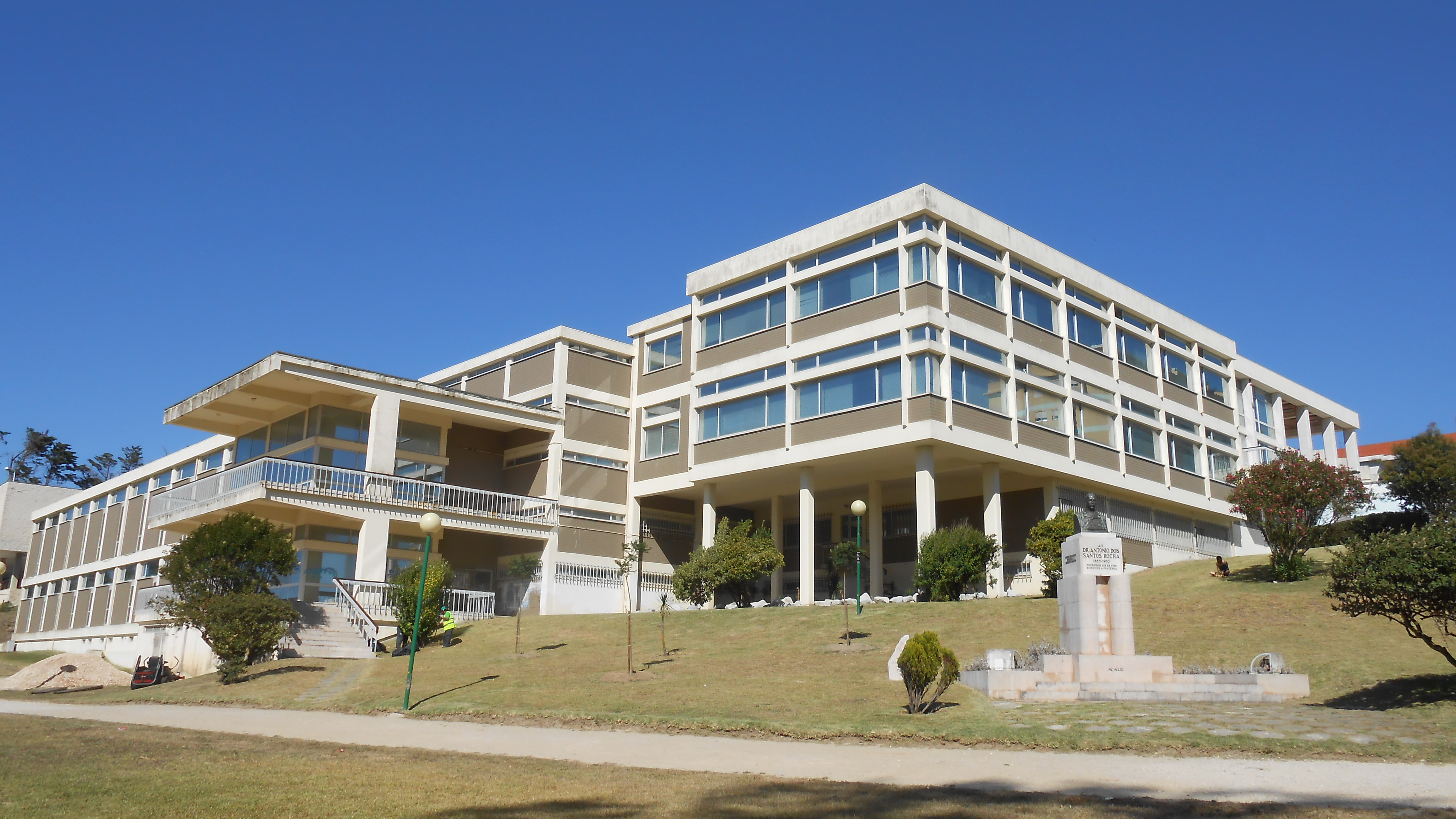 The Museu Municipal Santos Rocha in portuguese seaside town Figueira da Foz, seen from the Abadias park.